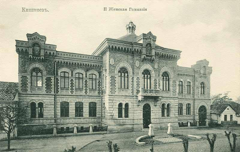 Historic image of building of Dadiani's former girls gymnasium in Chișinău